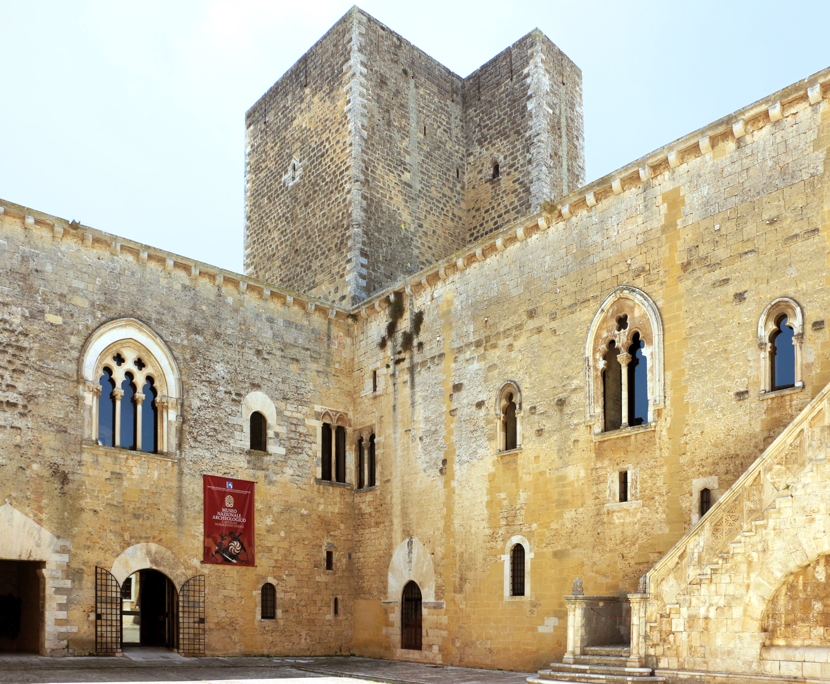 Castello normanno-svevo (Gioia del Colle)